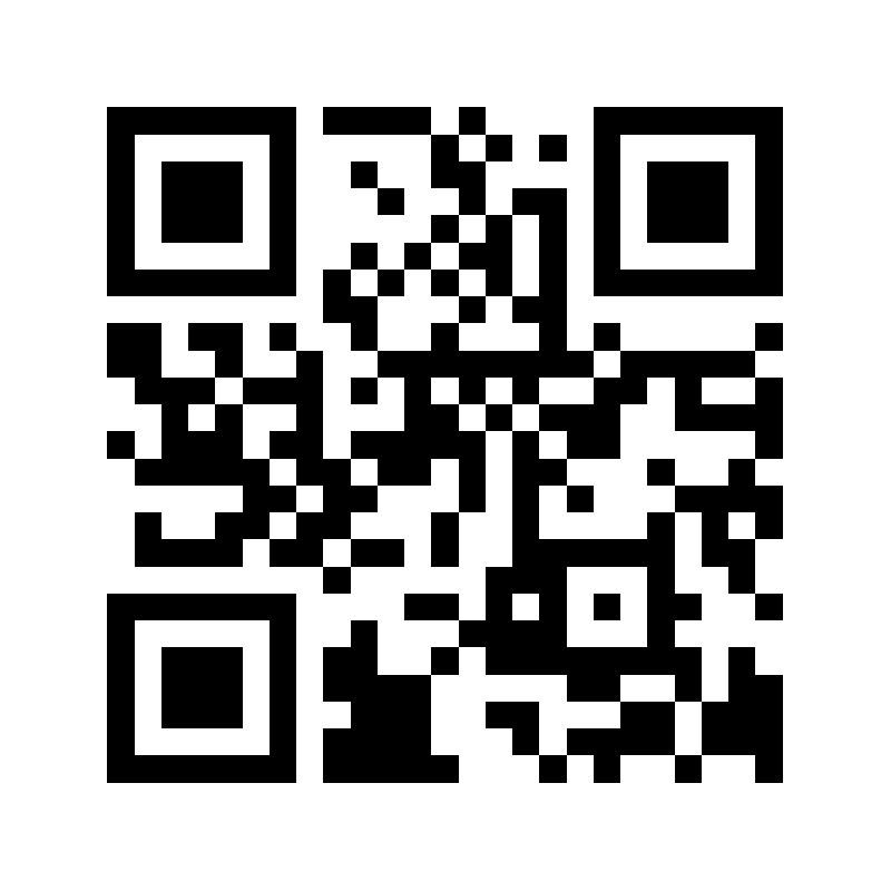 QRpedia code for QRpedia page in Asturian Wikipedia